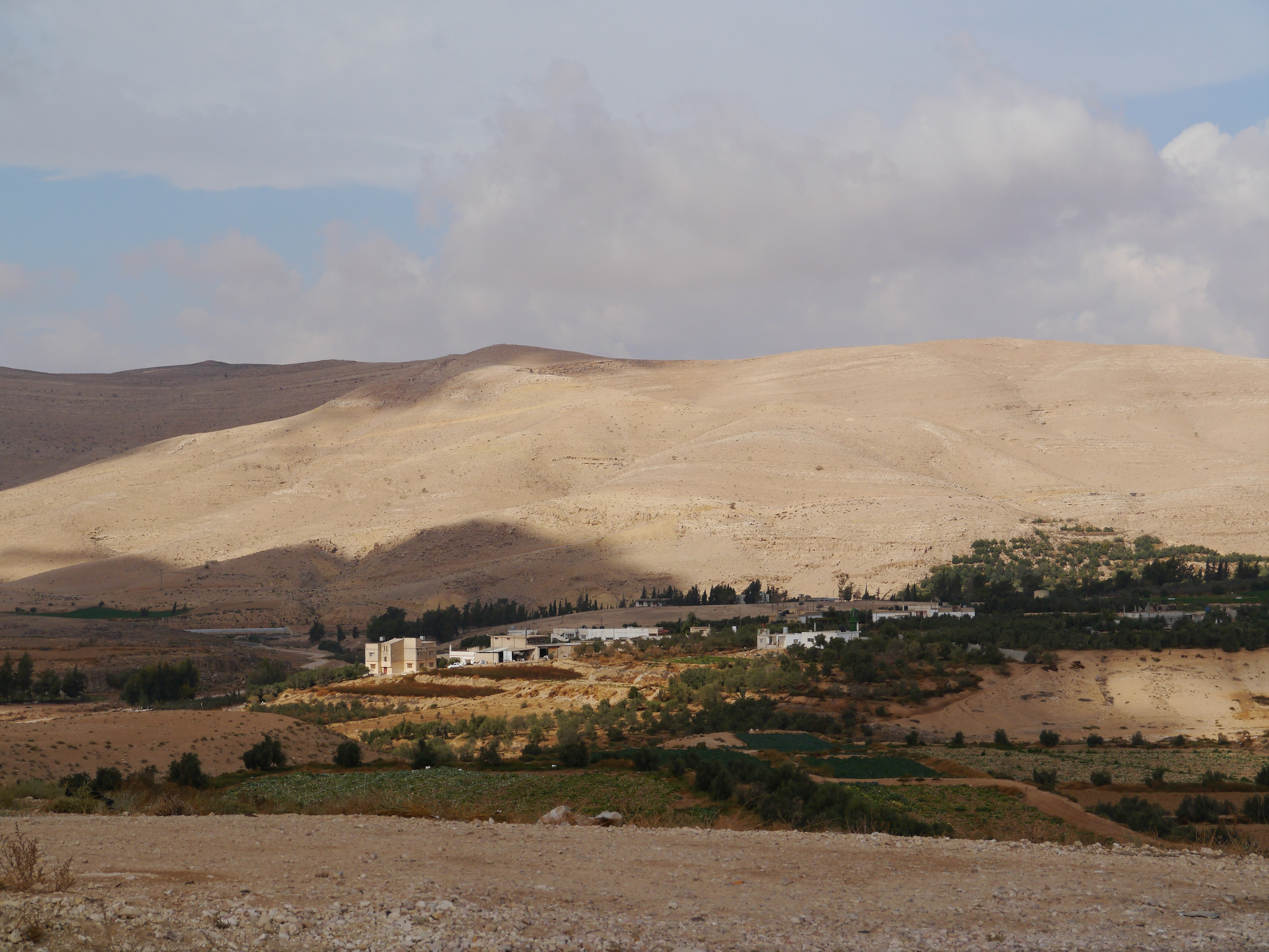 Syrian Desert, Eastern Jordan